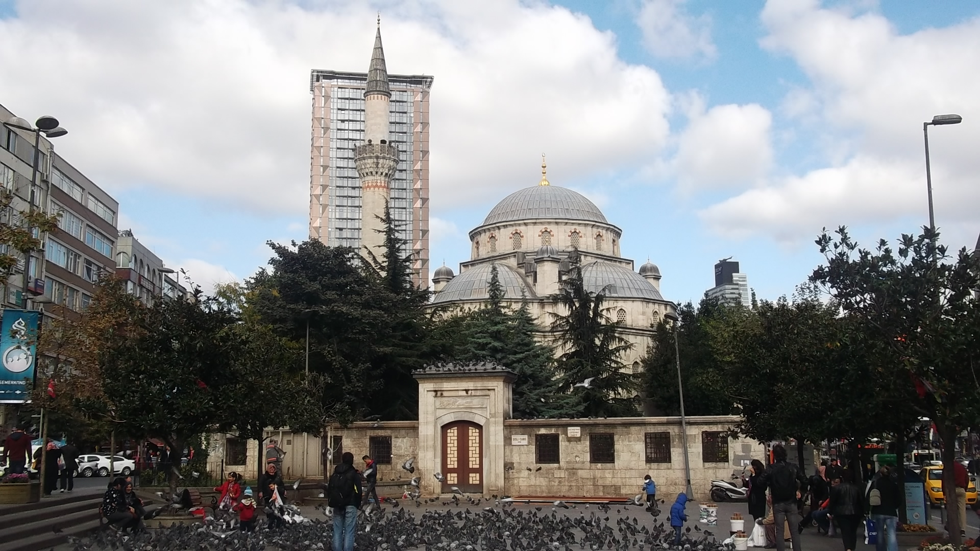 Şişli Mosque and the entrance to its courtyard.